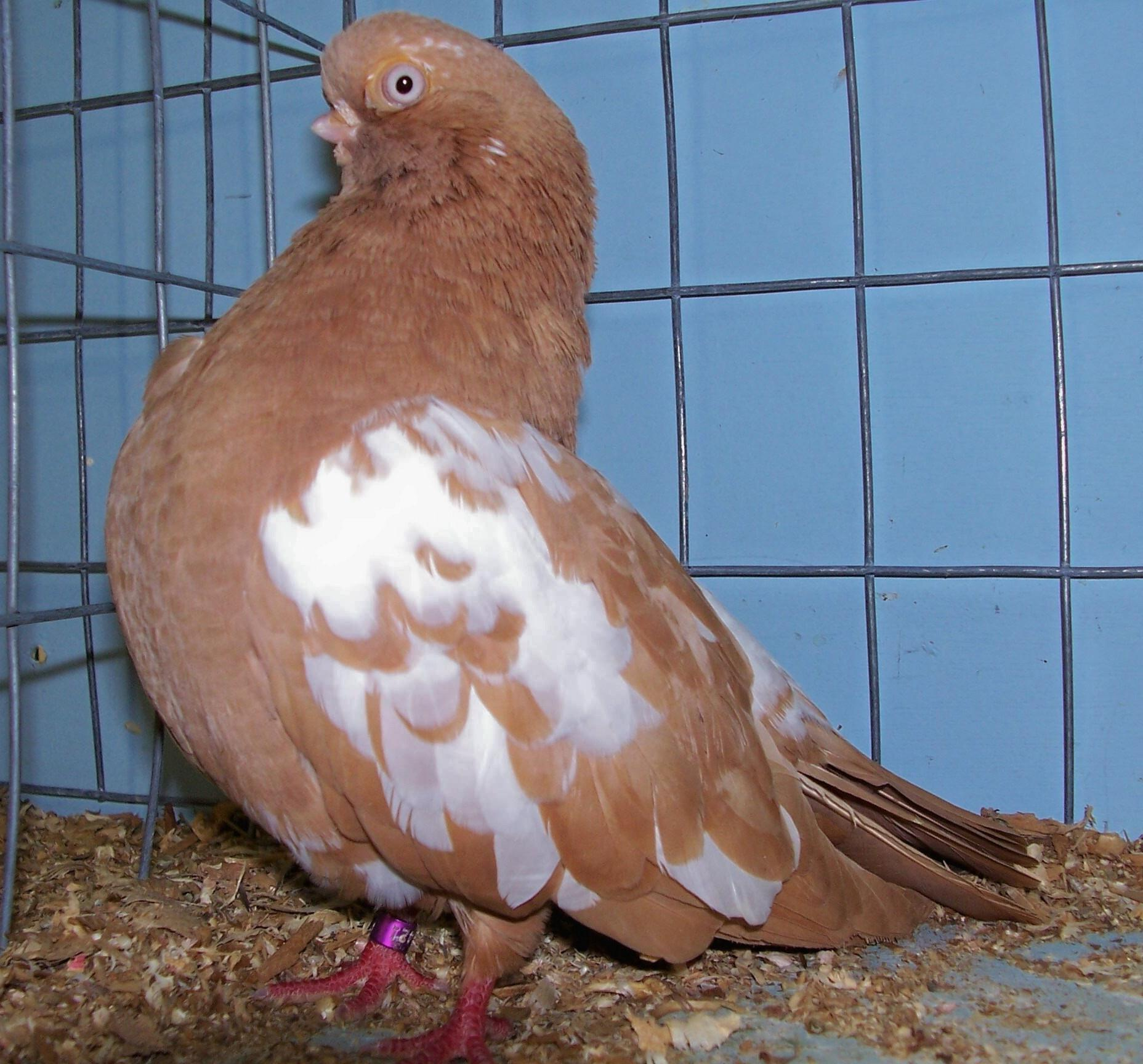 Champion English Short Faced Tumbler at Queensland State Show 2008. This pigeon is an old hen owned by Bob Kennedy.